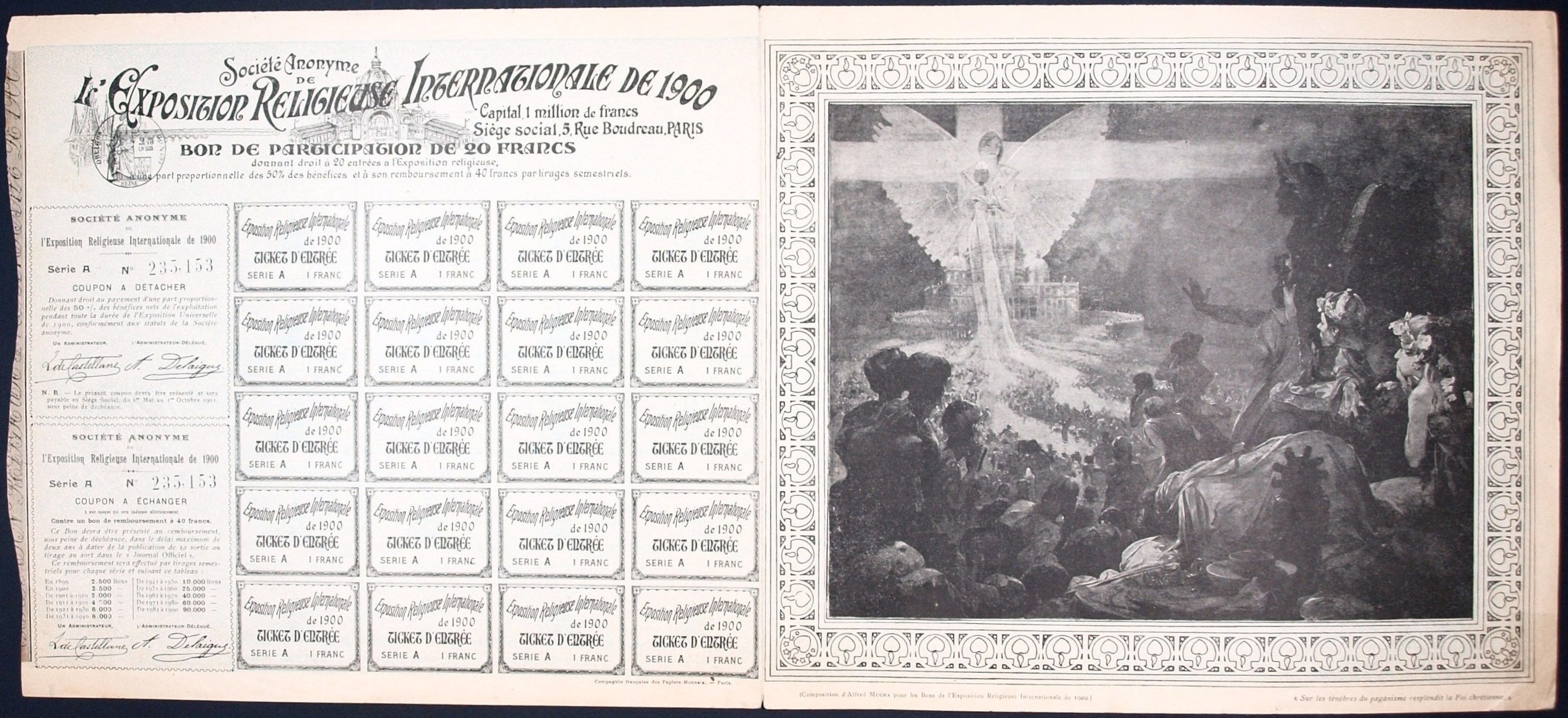 Bon de Participation of the 'S.A. de l’Exposition Religieuse Internationale de 1900', issued 1898